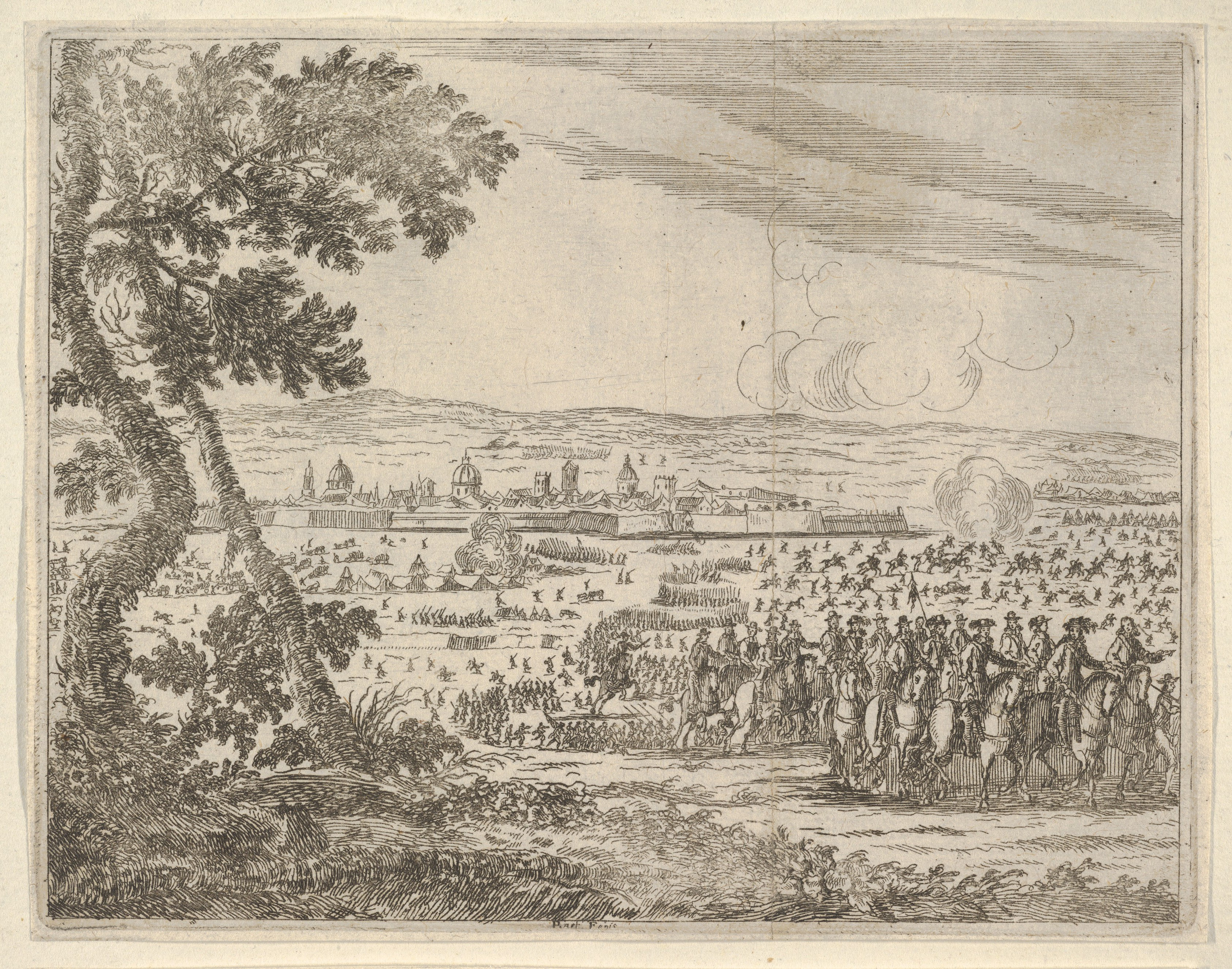 Print; Prints